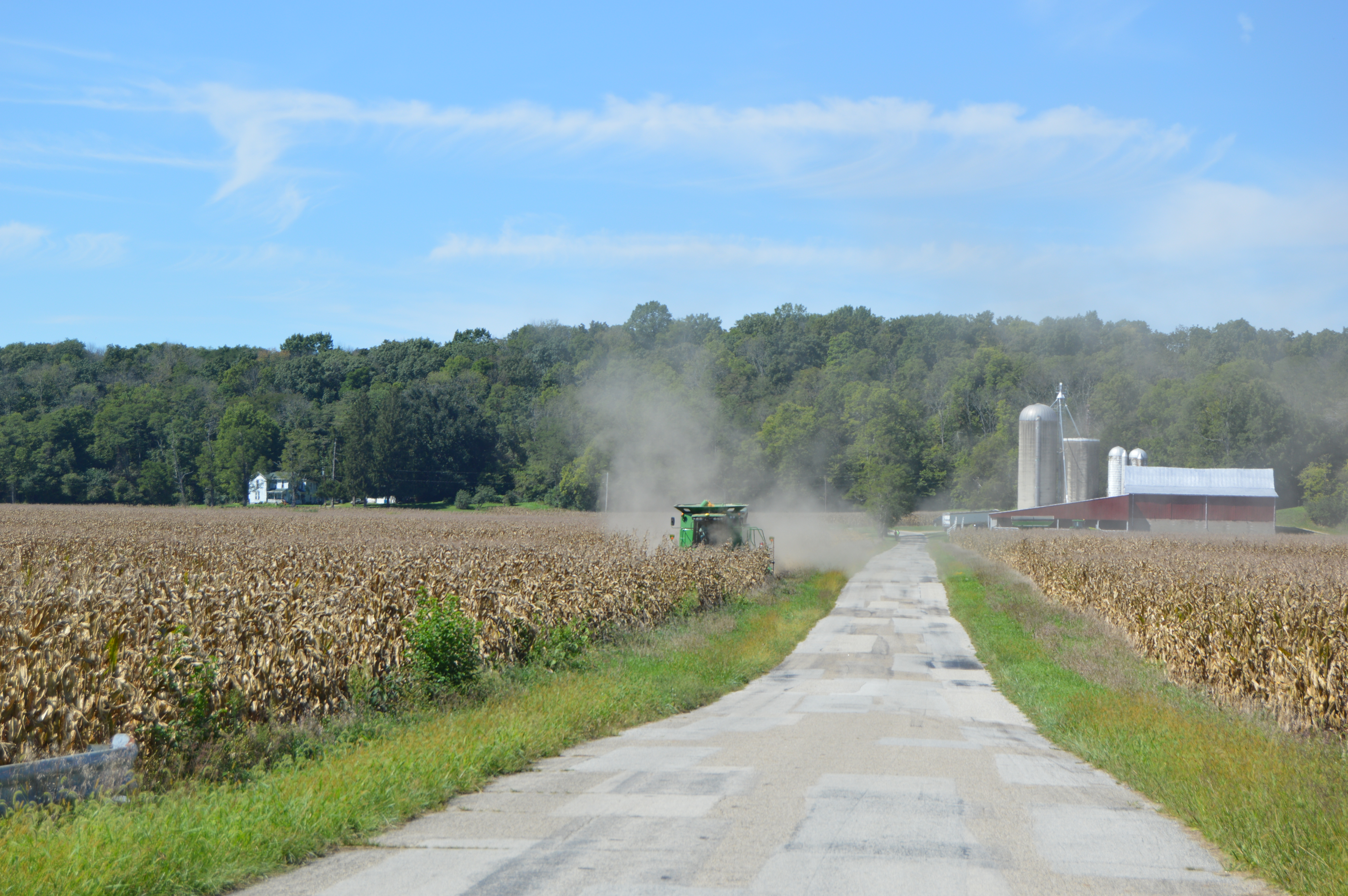 Corn harvest on Kinsey Road in the southeastern corner of Lanier Township, Preble County, Ohio, United States.